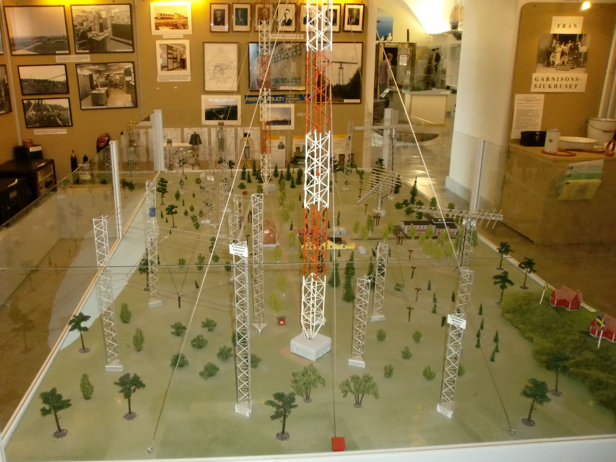 Scale model of the antenna site at Karlsborg Radio, in Karlsborg, Sweden approximately 1970. Model located at Karlsborg Fortress Museum